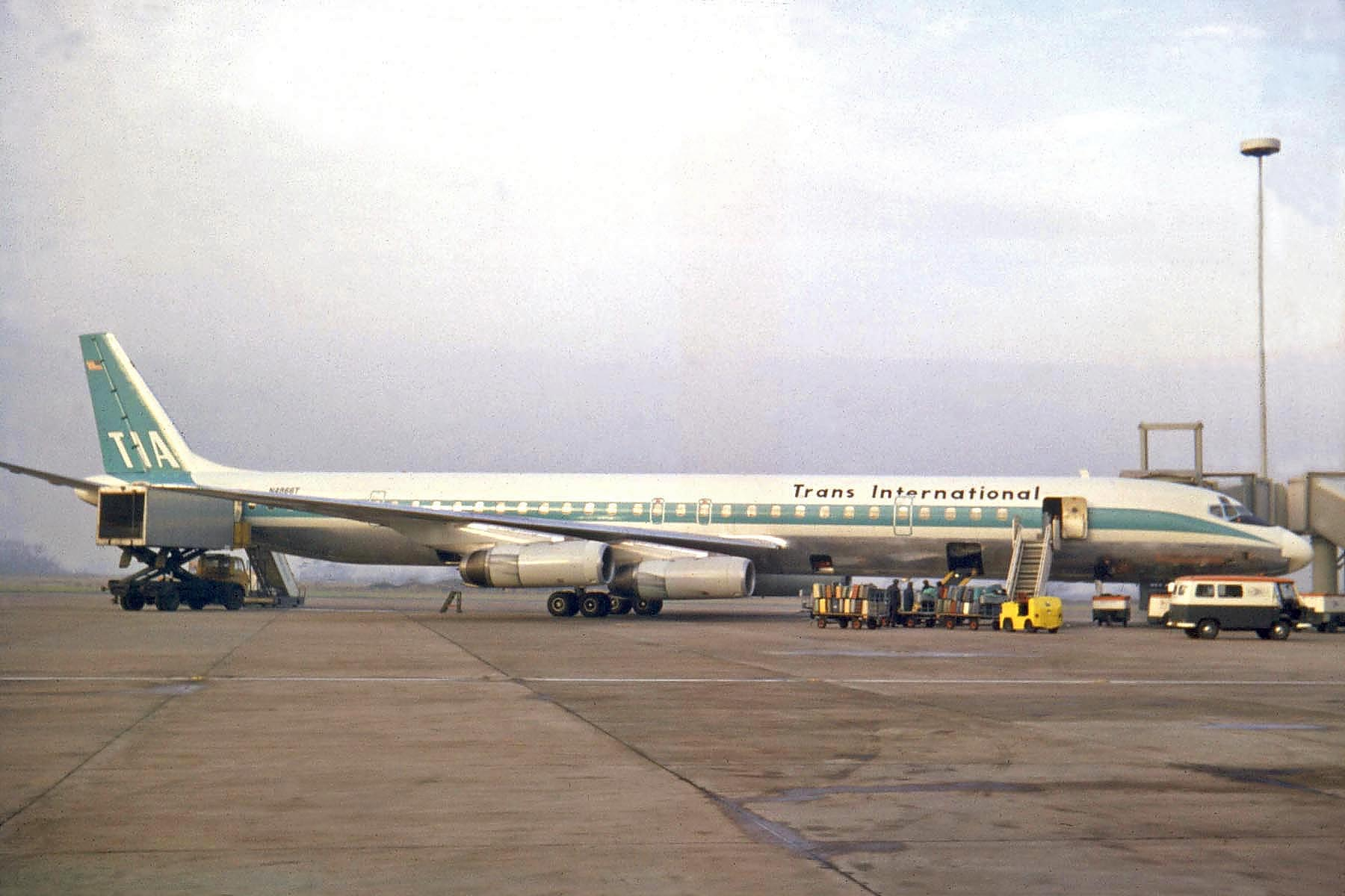 A picture of an airplane